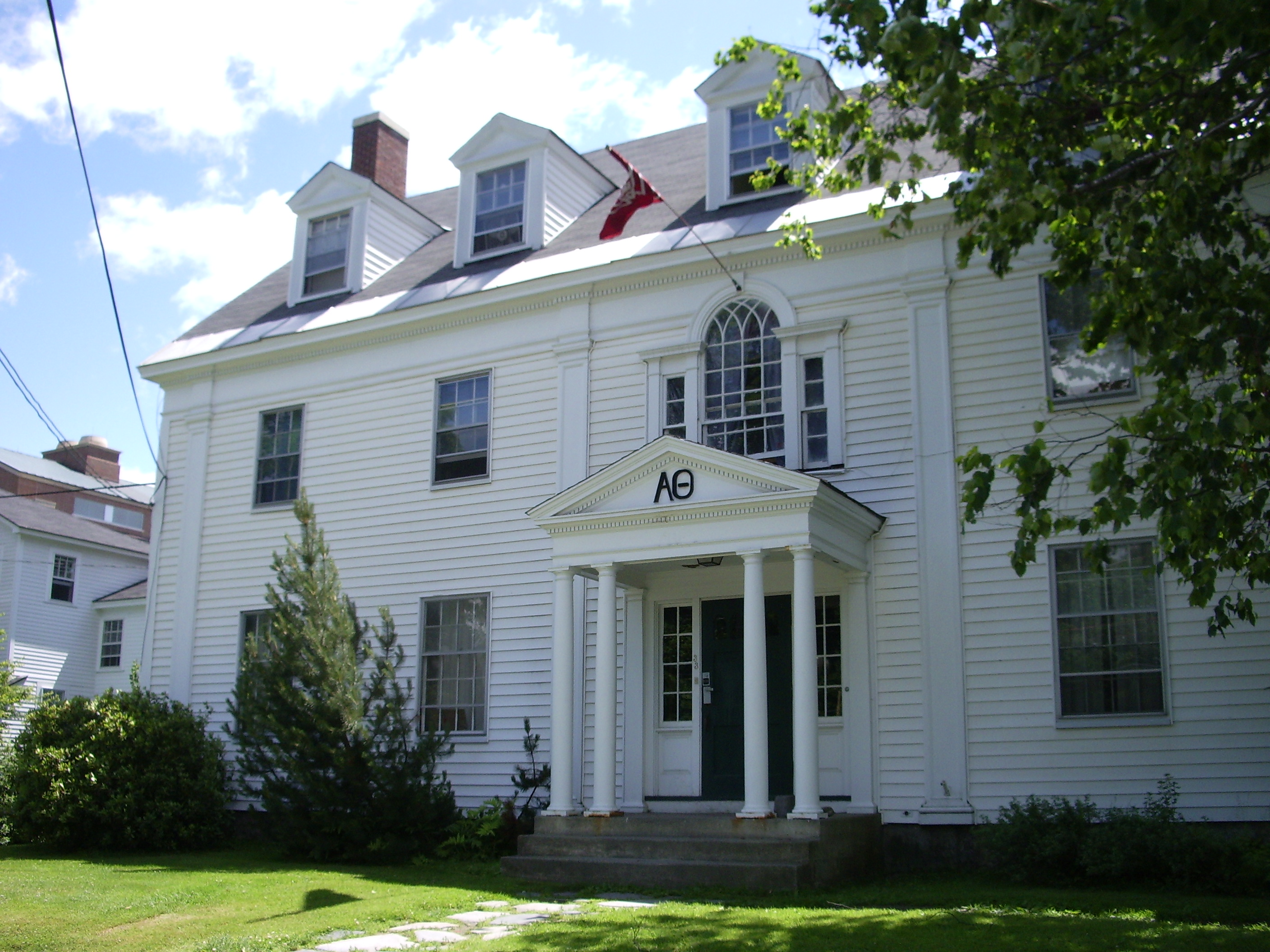 Photograph of Alpha Theta at the campus of Dartmouth College in Hanover, New Hampshire.